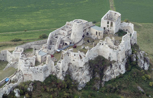 Spiš Castle, Slovakia, castle, aerial photography